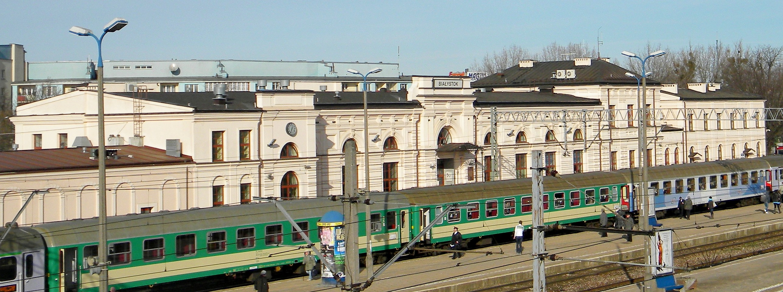 Main railway station (XIX century) in Białystok, Poland